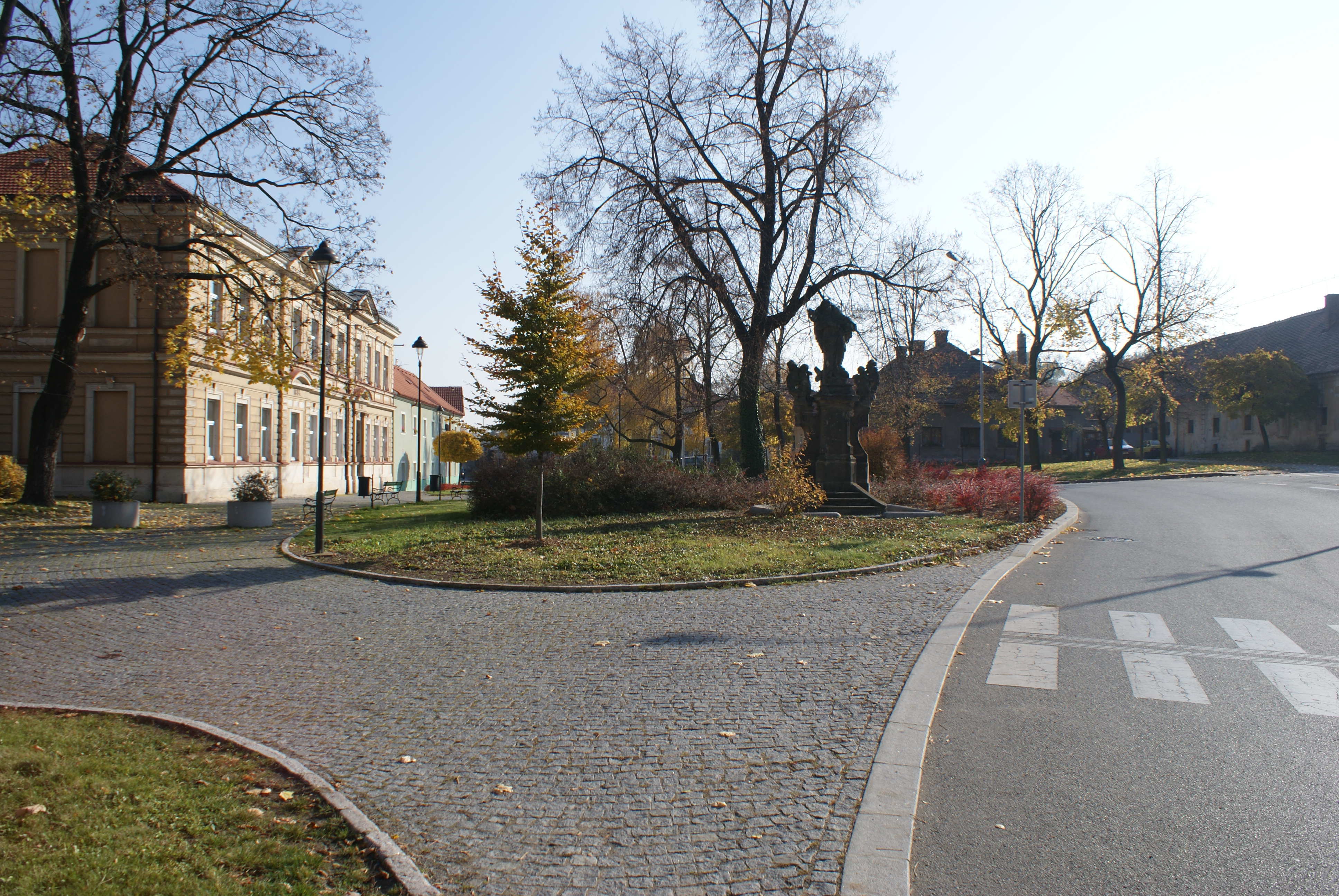 Square in Vinoř, Prague.